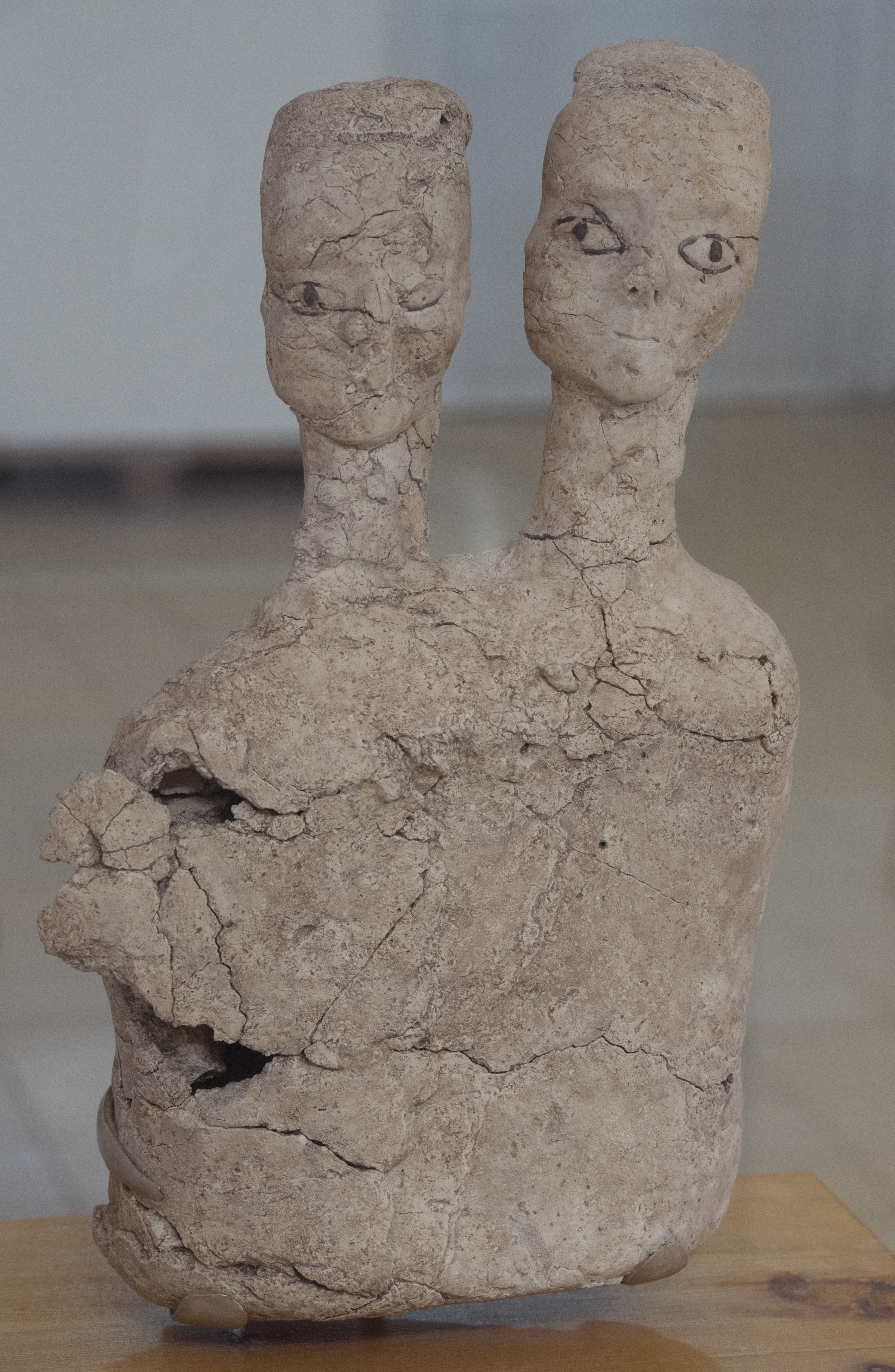 One of pictures taken in the Archaeological Museum of Amman of a number of monumental lime plaster and reed statues dated to the Pre-Pottery Neolithic C period. Dating to between the mid-7th millennium BC and the mid-8th millennium BC, the statues are among the earliest large-scale representations of the human form, and are regarded to be one of the most remarkable specimens of prehistoric art from the Pre-Pottery Neolithic B or C period. Some earlier human statues are known from Upper Mesopotamia, such as the Urfa Man. Although it is held that they represented the ancestors of those in the village, their purpose remains uncertain (text taken from Wikipedia, but in line with information in the museum itself). Some are single, some show pairs. In some cases the picture shows a "close up".